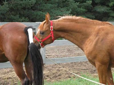 TeasingC1